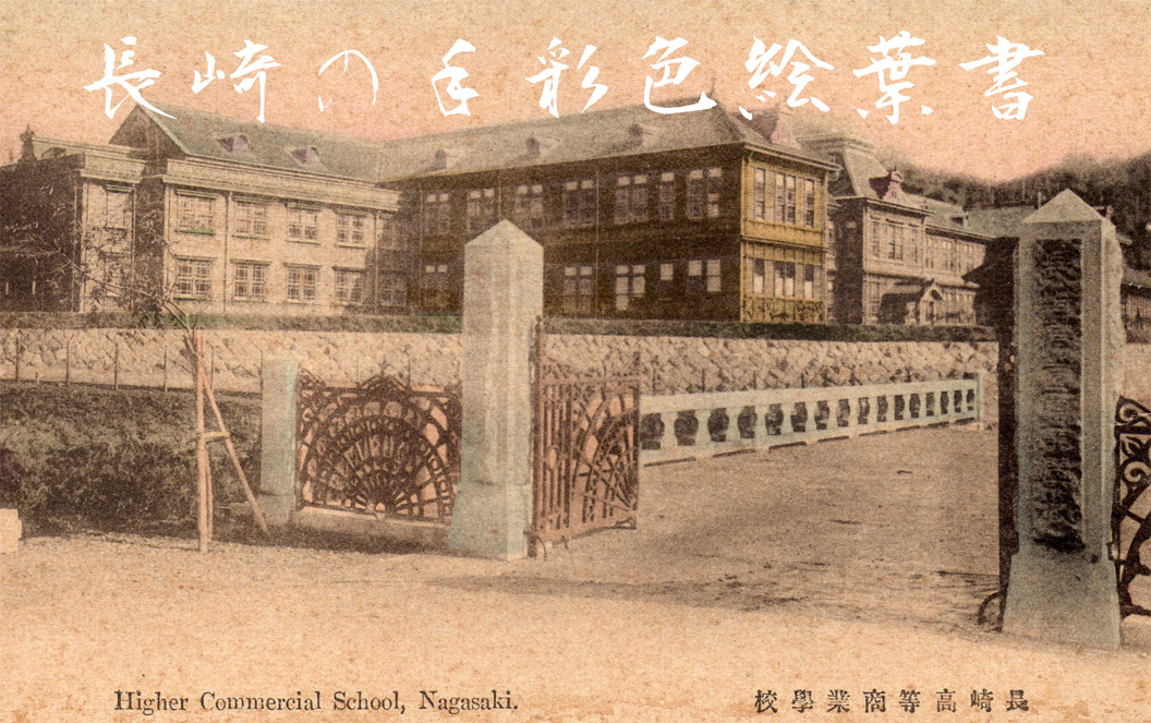 Japanese hand tinted postcard showing the Higher Commercial School in Nagasaki